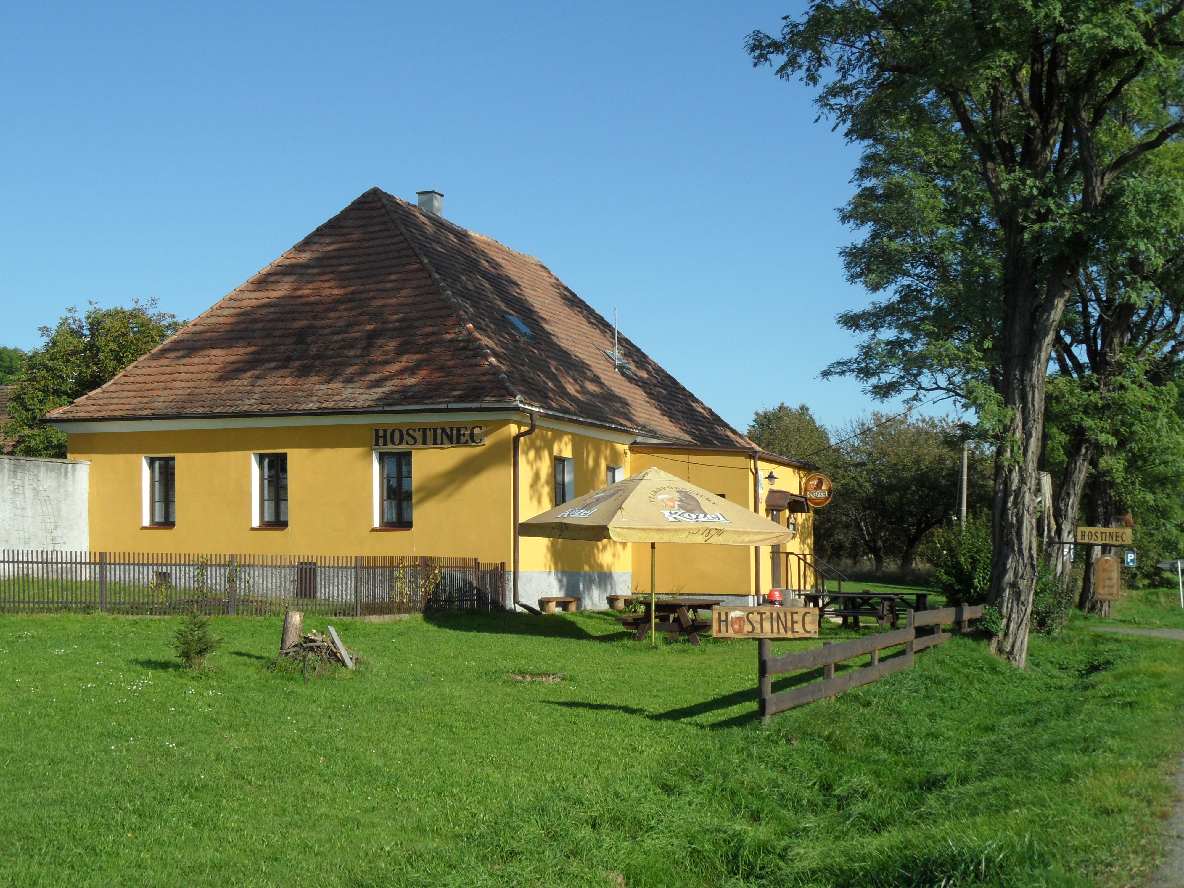 Čejtice (Horka II) A. Pub near Main Road II/336, Kutná Hora District, the Czech Republic.